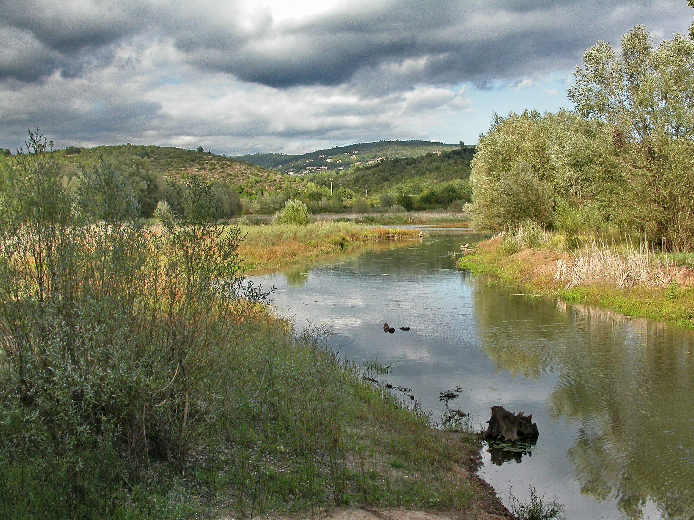 Carpénée river in Fondurane Montauroux.